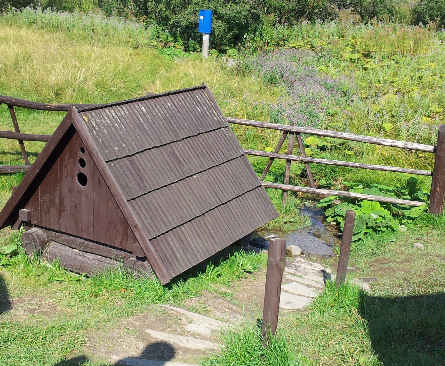 Hron river source